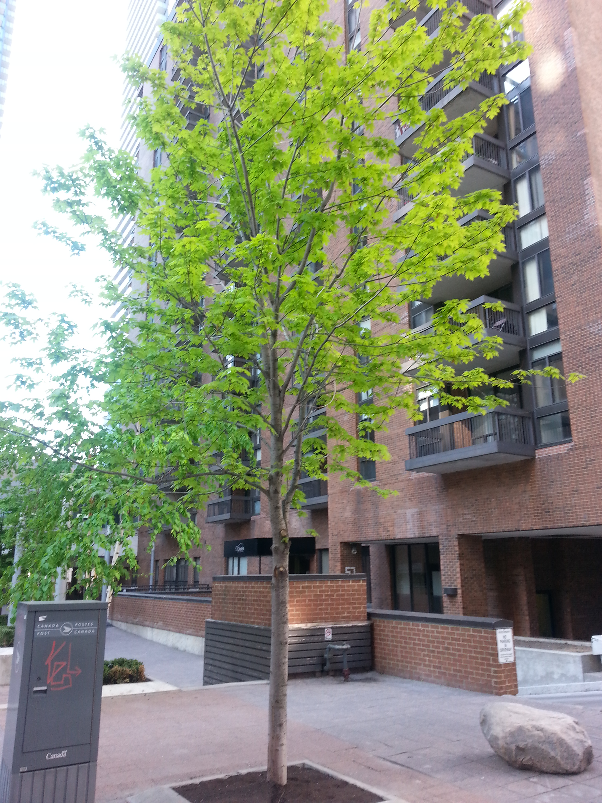 Autumn Blaze Maple (Acer × freemanii 'Jeffersred') on Charles Street, Toronto